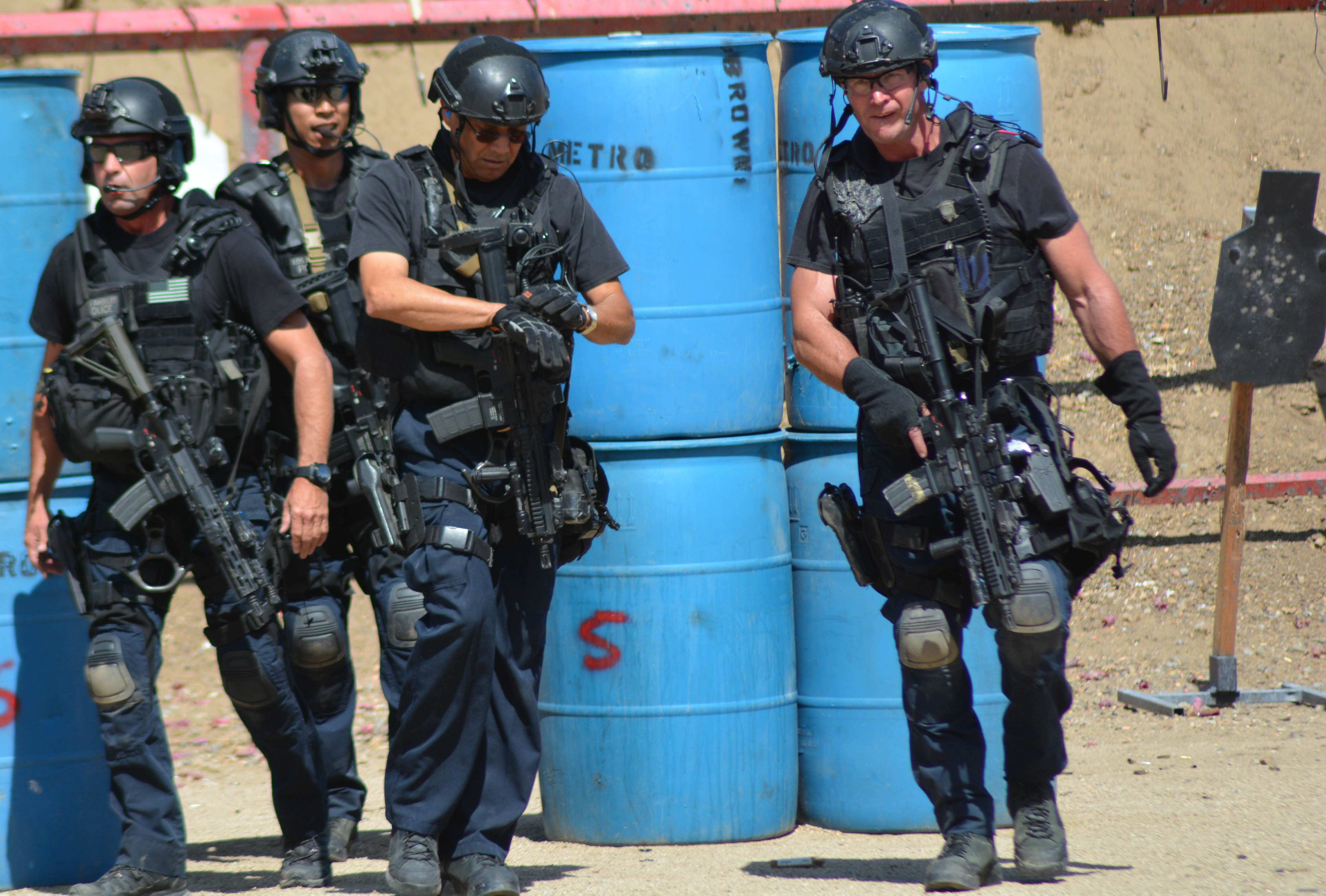 LAPD SWAT taking part in an exercise in April 2015